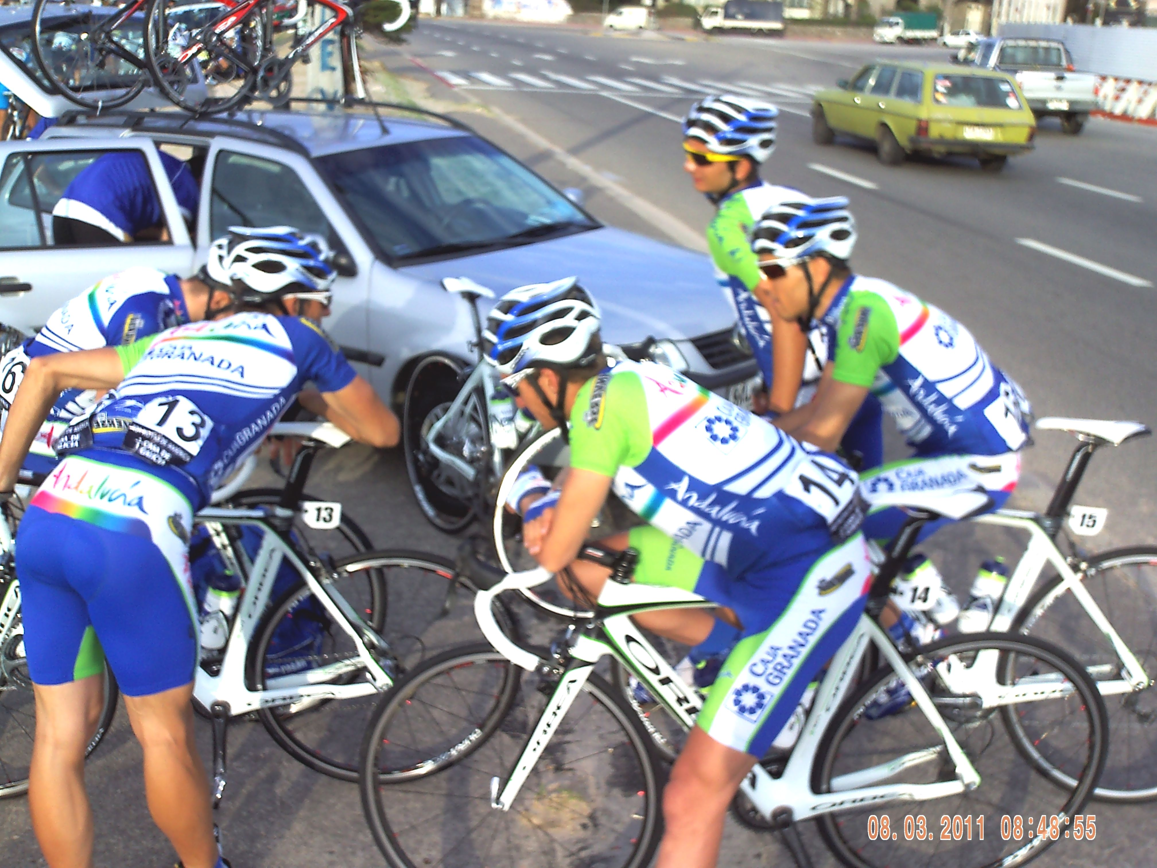 The spanish team Andalucía-Caja Granada, participant Rutas de América 2011 in Uruguay